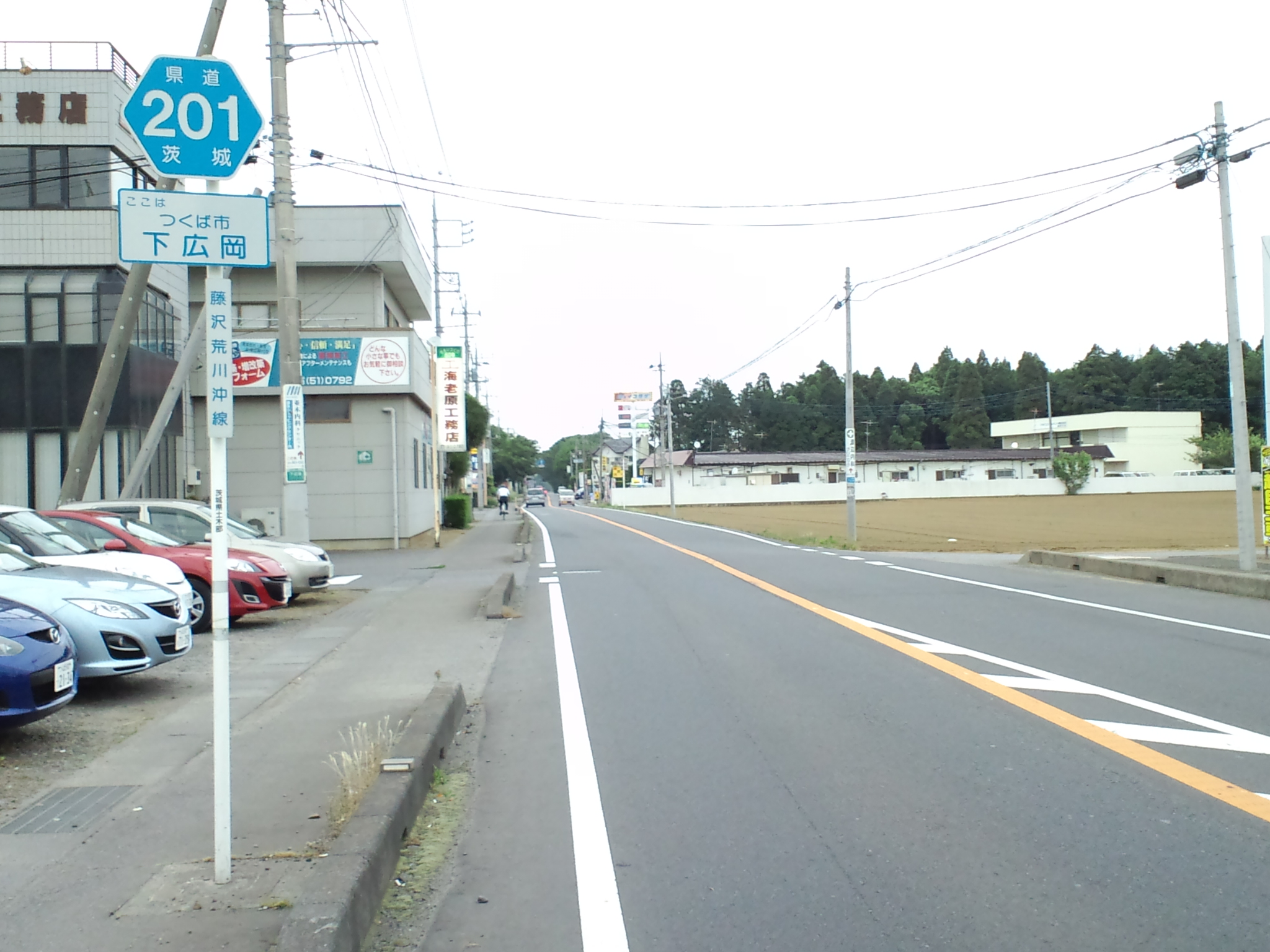 Ibaraki prefectural road 201 in Shimohirooka, Tsukuba, Ibaraki, Japan.